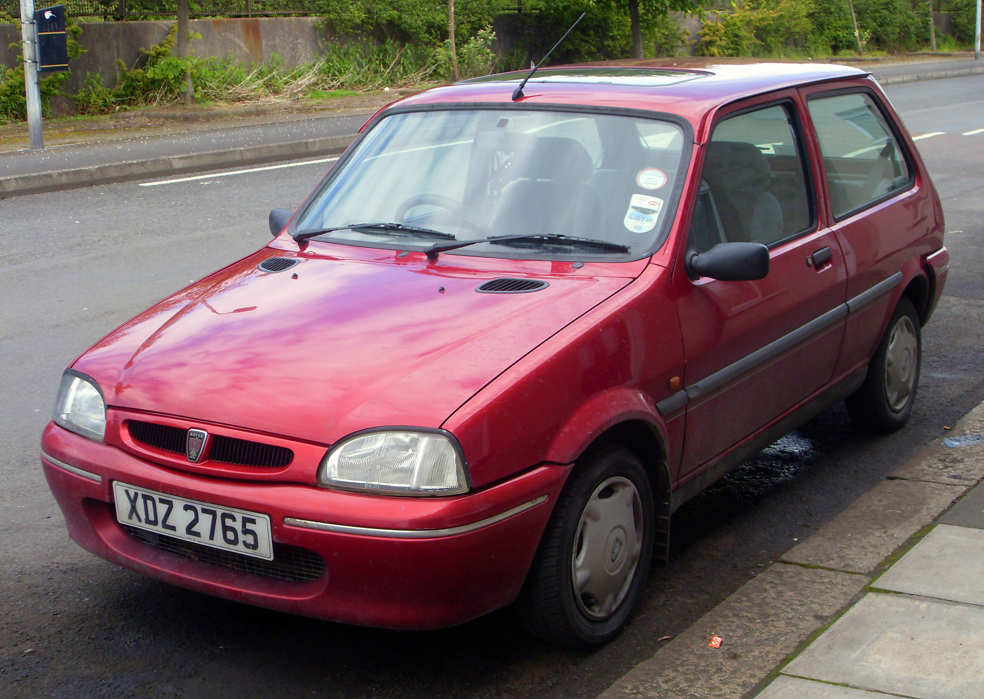 A red Rover 100 Knightsbridge SE in Portadown, Northern Ireland.